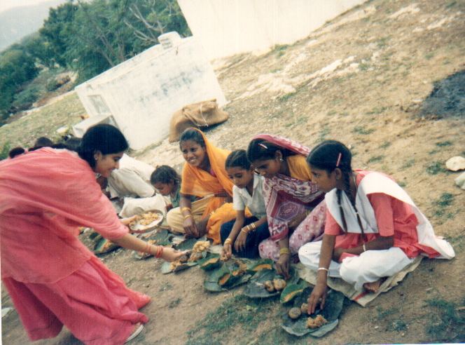 Kuki Taruna Kumari, daughter of Kr. Harish Chandra Singh Karjali, feeding the children of Nauwa village at the Chatur Sadhana Sthal, Nauwa (1991)